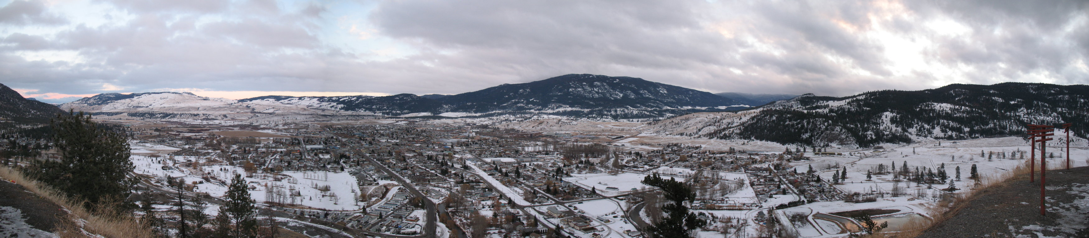 Panorama of Merritt, BC, during the winter